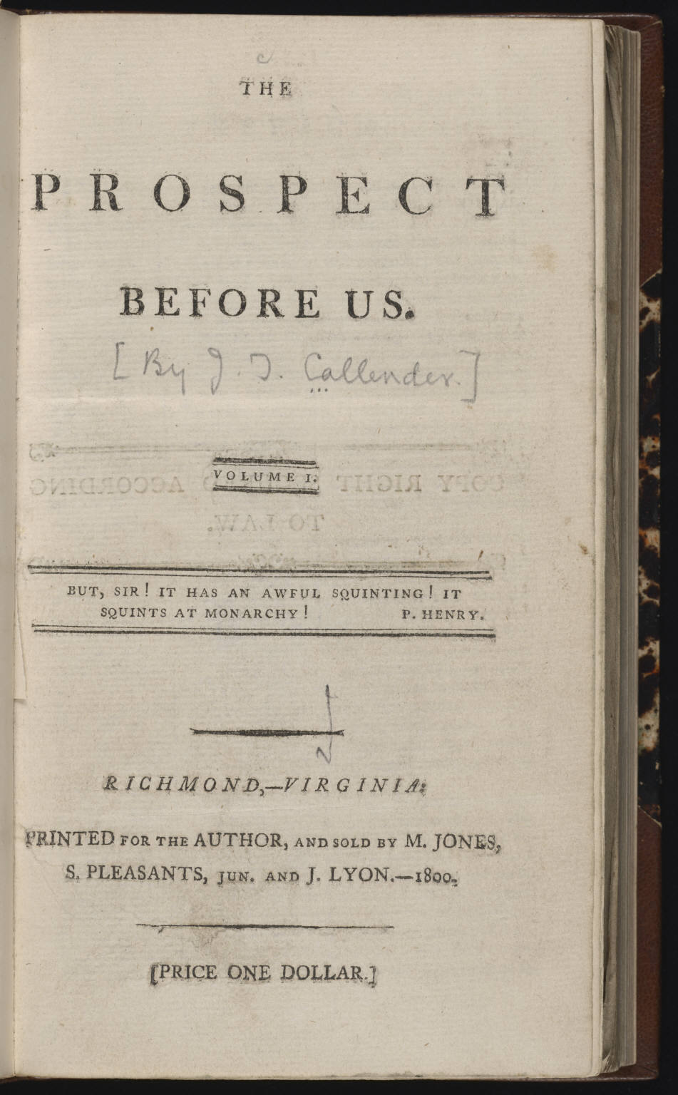 Title page of "The Prospect Before Us," the anti-Federalist tract by political pamphleteer and journalist James T. Callender. Courtesy of the General Collection, Beinecke Rare Book and Manuscript Library, Yale University, New Haven, Connecticut.